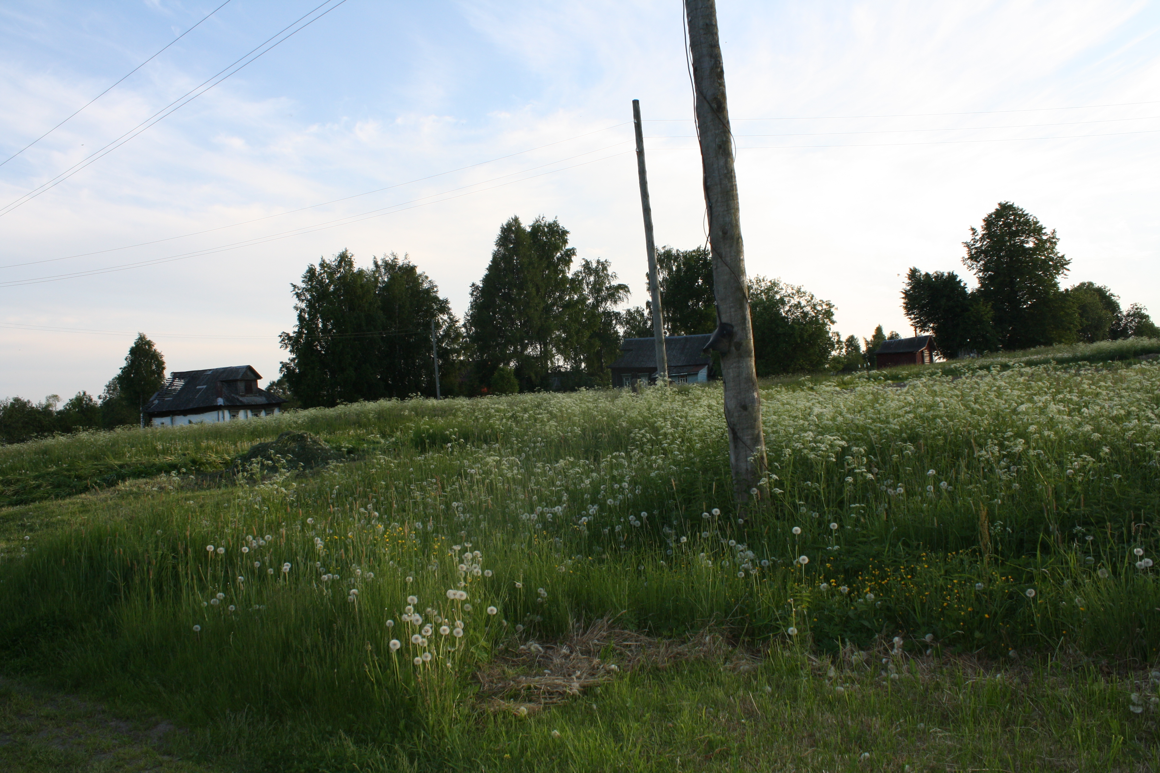 Kuriakino